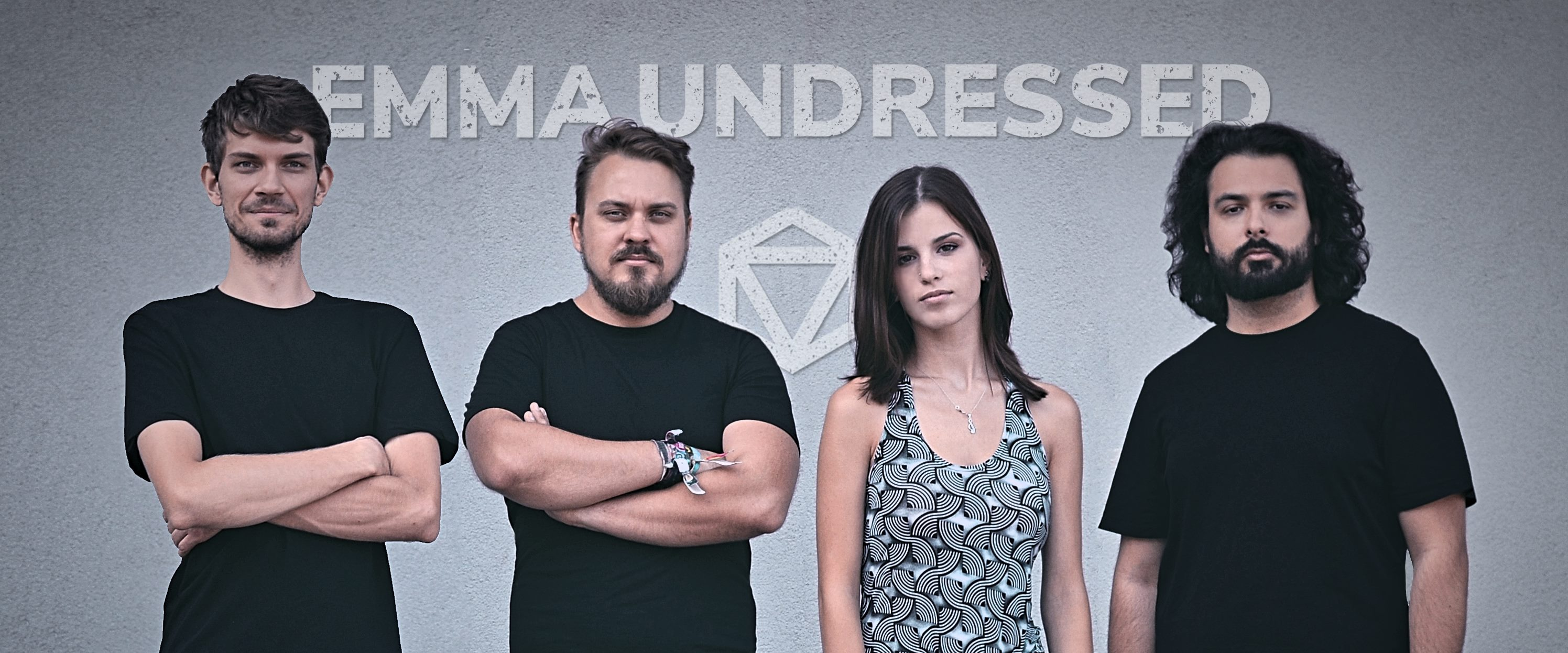 Emma Undressed in 2018